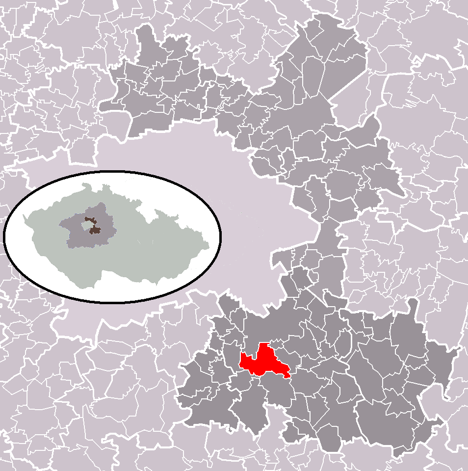 Location of Strančice municipality within Prague-East District and administrative area of Říčany as a Municipality with Extended Competence.